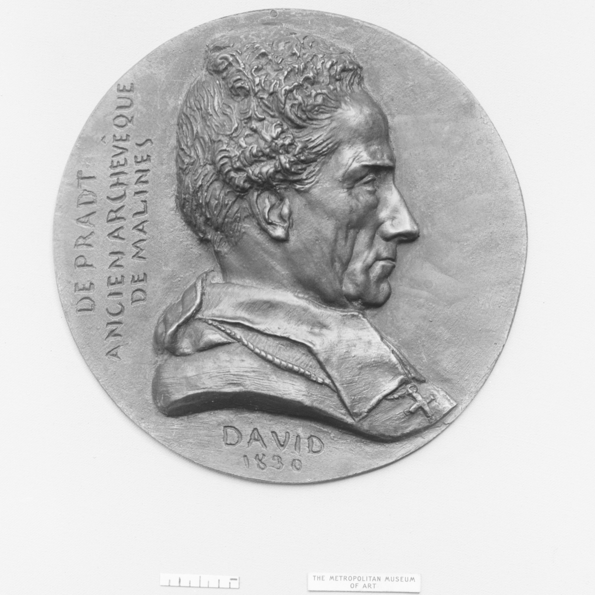 French; Medallion; Medals and Plaquettes